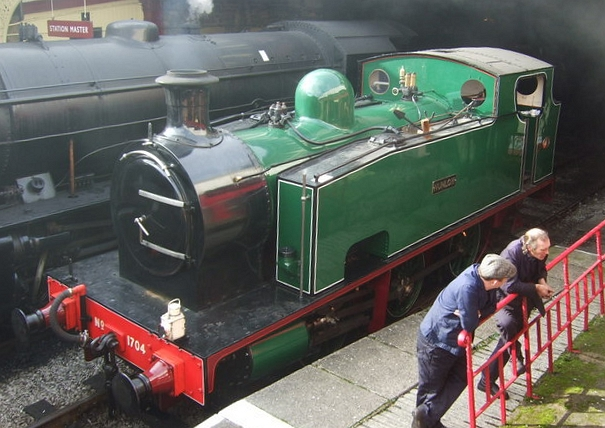 "At rest or deep in thought. The steam engine Nunlow waits its turn to haul one of the historic trains at Keighley. No doubt the engine crew are reminiscing."